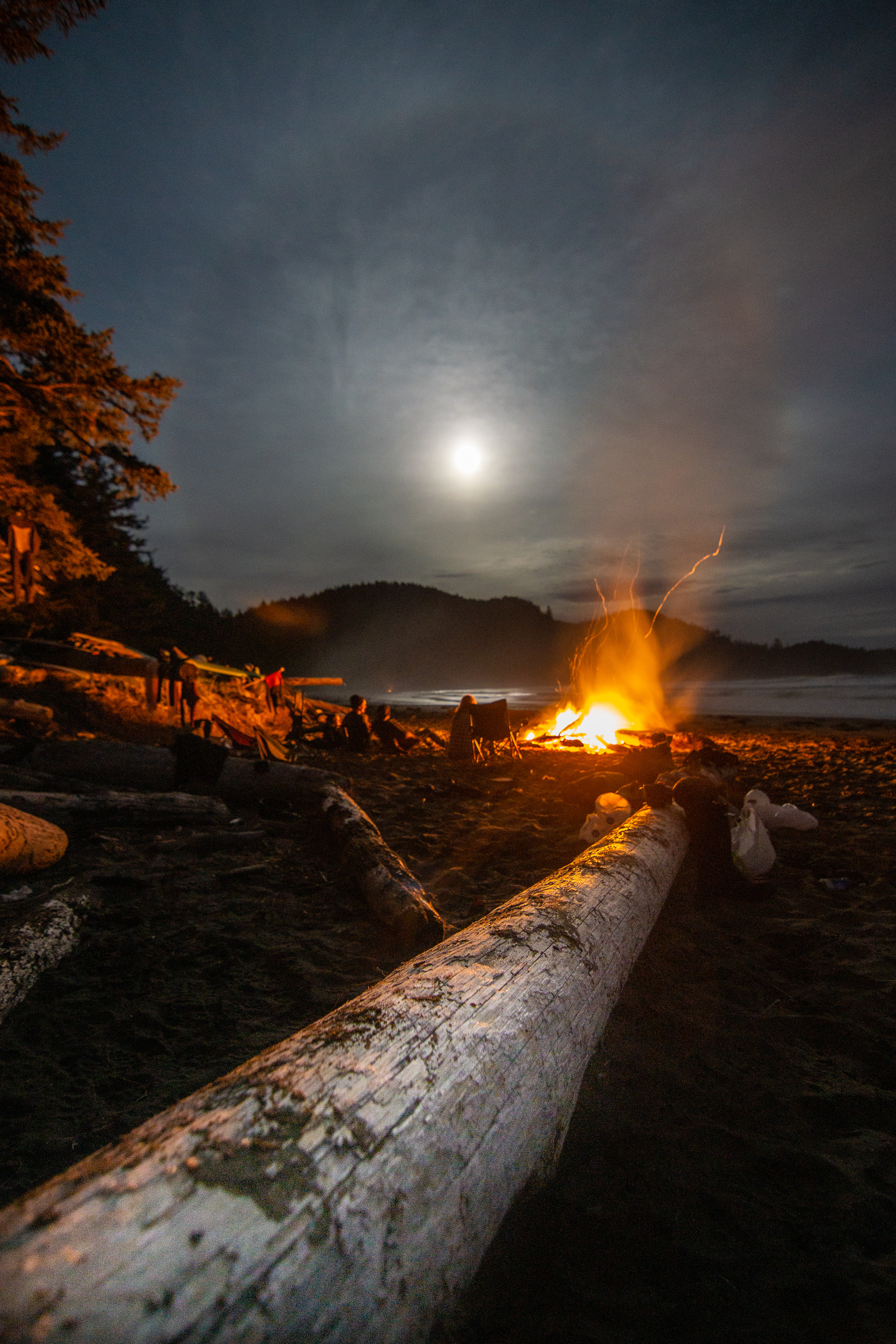 A full moon halo lights up Raft Cove Beach This photo was taken in a protected area in Canada, Wikidata item Raft Cove Provincial Park (Q7282723)